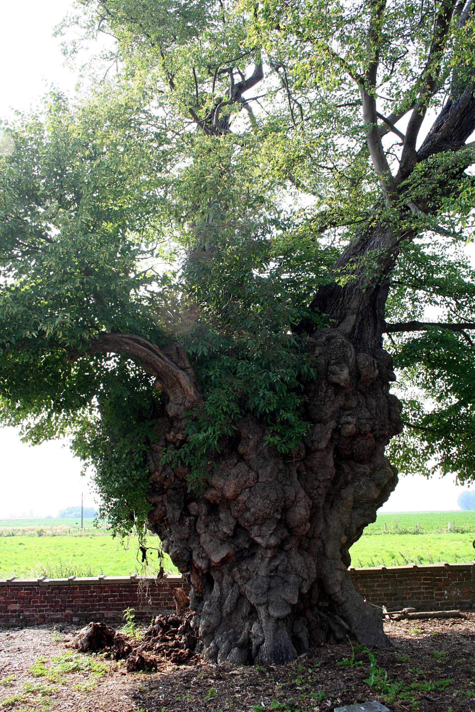 Arc-Ainières (Belgium), the old multisecularian lime tree knocked down by the storm of 11 may 2007 - Caractéristics: circumference of more than 9m at 1m50 of the grond, was aged of about 500 year old. Small-leaved Lime (Tilia cordata).